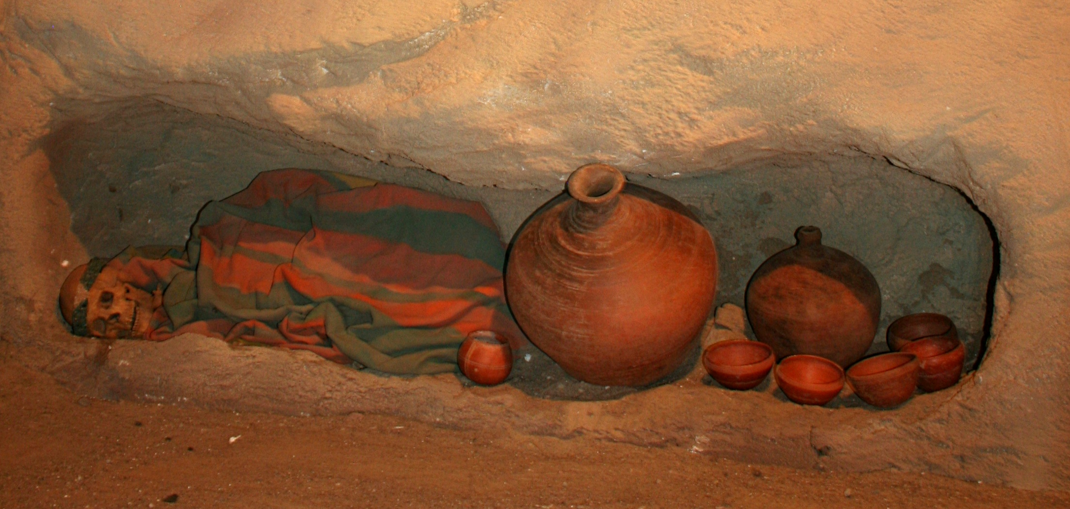 Tumulus burial discovered at Kassinger-Bahri in Sudan, Post-Meroitic period. This photo of Kashubia, Pomerelia and Żuławy Wiślane was taken during Wikiekspedycja 2010 set up by Wikimedia Polska Association. You can see all photographs in category Wikiekspedycja 2010. The making of this document was supported by Wikimedia Polska.